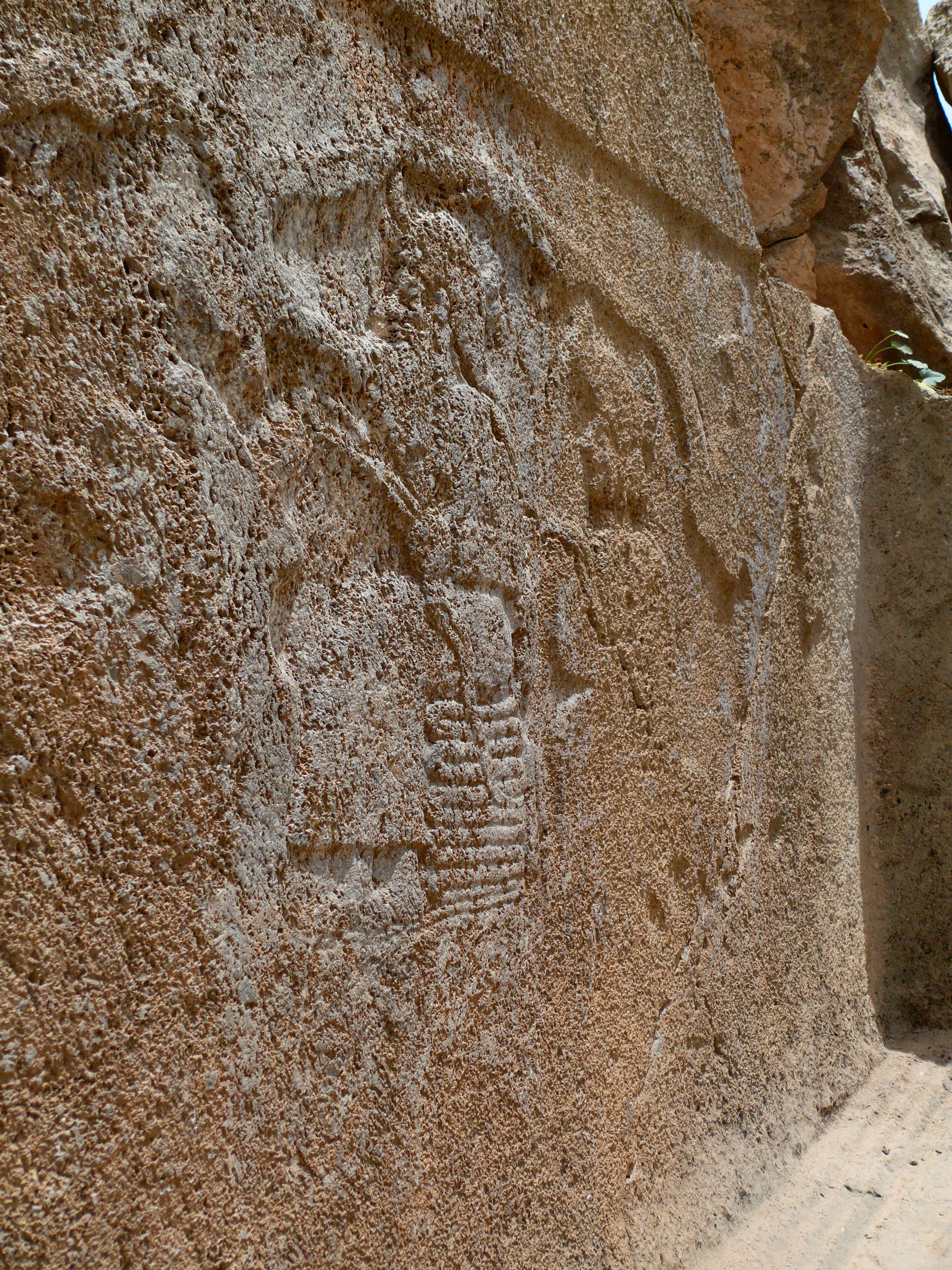 The central panel of the Elamite Rock relief of Kurangun showing enthroned divinities. Taken in Seh Talan village, Fahlian district, Vicinity of Noorabad, Fars province, Iran, May 2009.